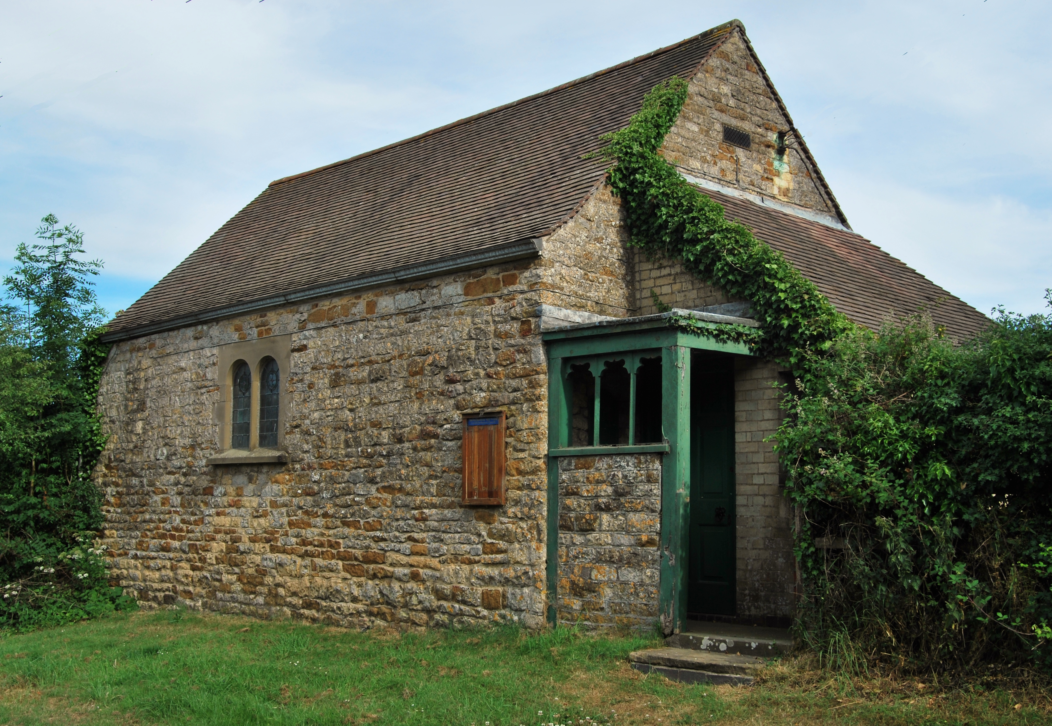 United Reformed chapel, Freeby, Leicestershire